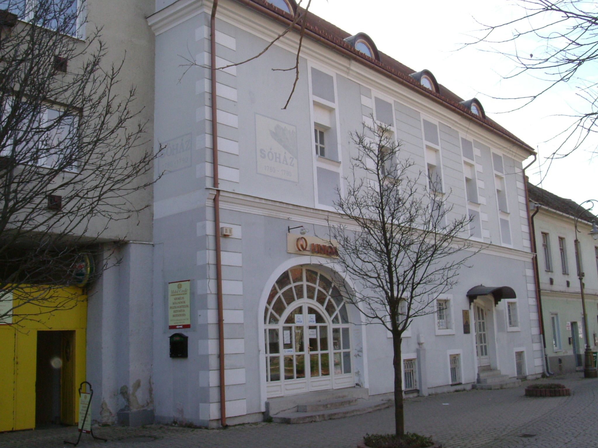 Zalaegerszeg - Hungary. Salt office.